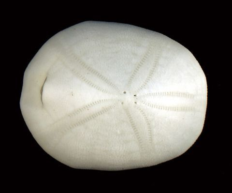 Cassidulus caribaearum Lamarck, 1801 - Preserved specimen Cassidulus caribaearum (YPM IZ 045666). Digital Image: Yale Peabody Museum of Natural History; photo by Eric A. Lazo-Wasem 2008 Location Atlantic Ocean; Caribbean Sea; British Virgin Islands; Anegada; Loblolly Bay